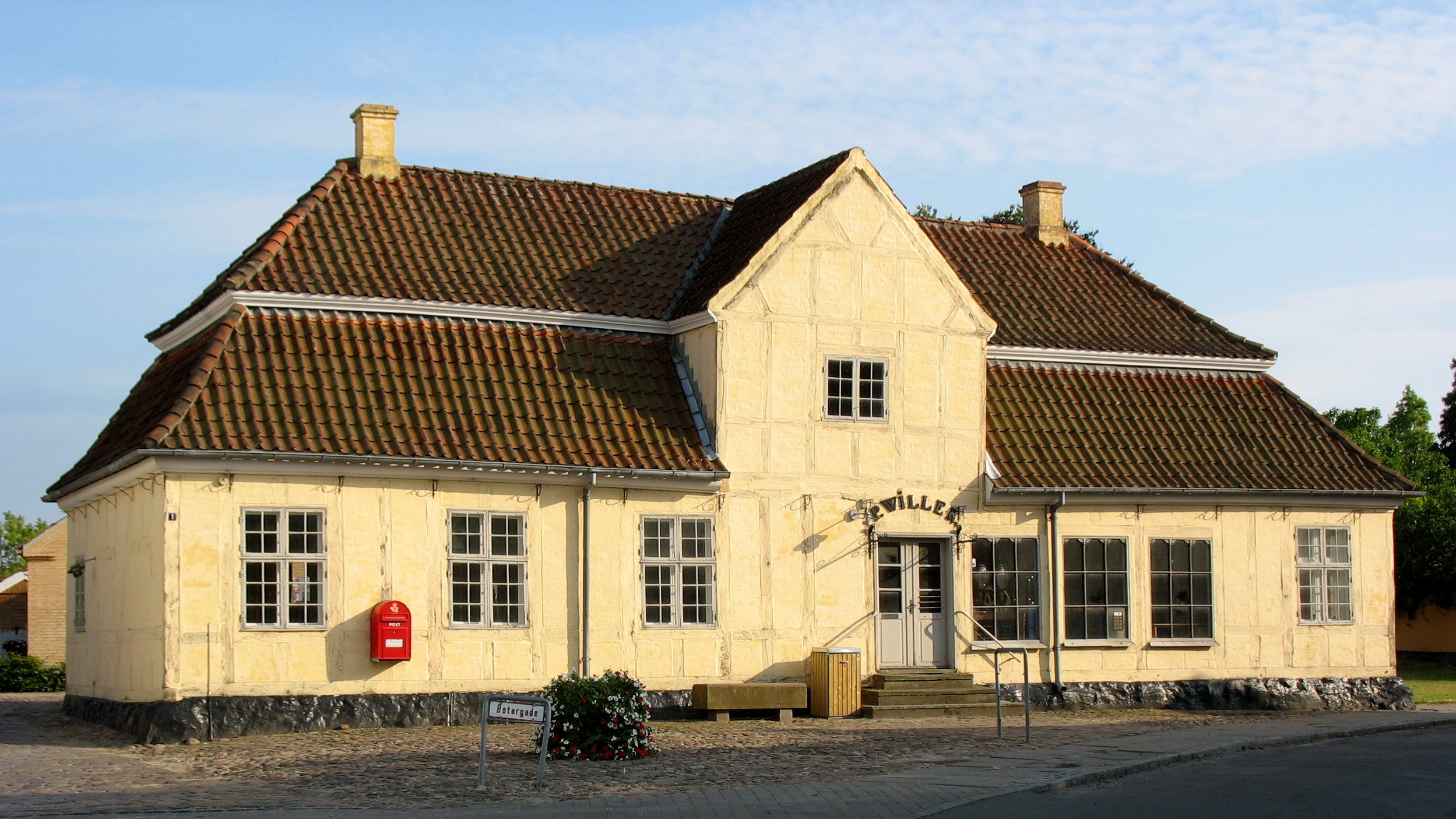 Old grocer´s shop "Willers Gaard" (now tourist information) in the small town "Rødby". It is located on the island Lolland in east Denmark.